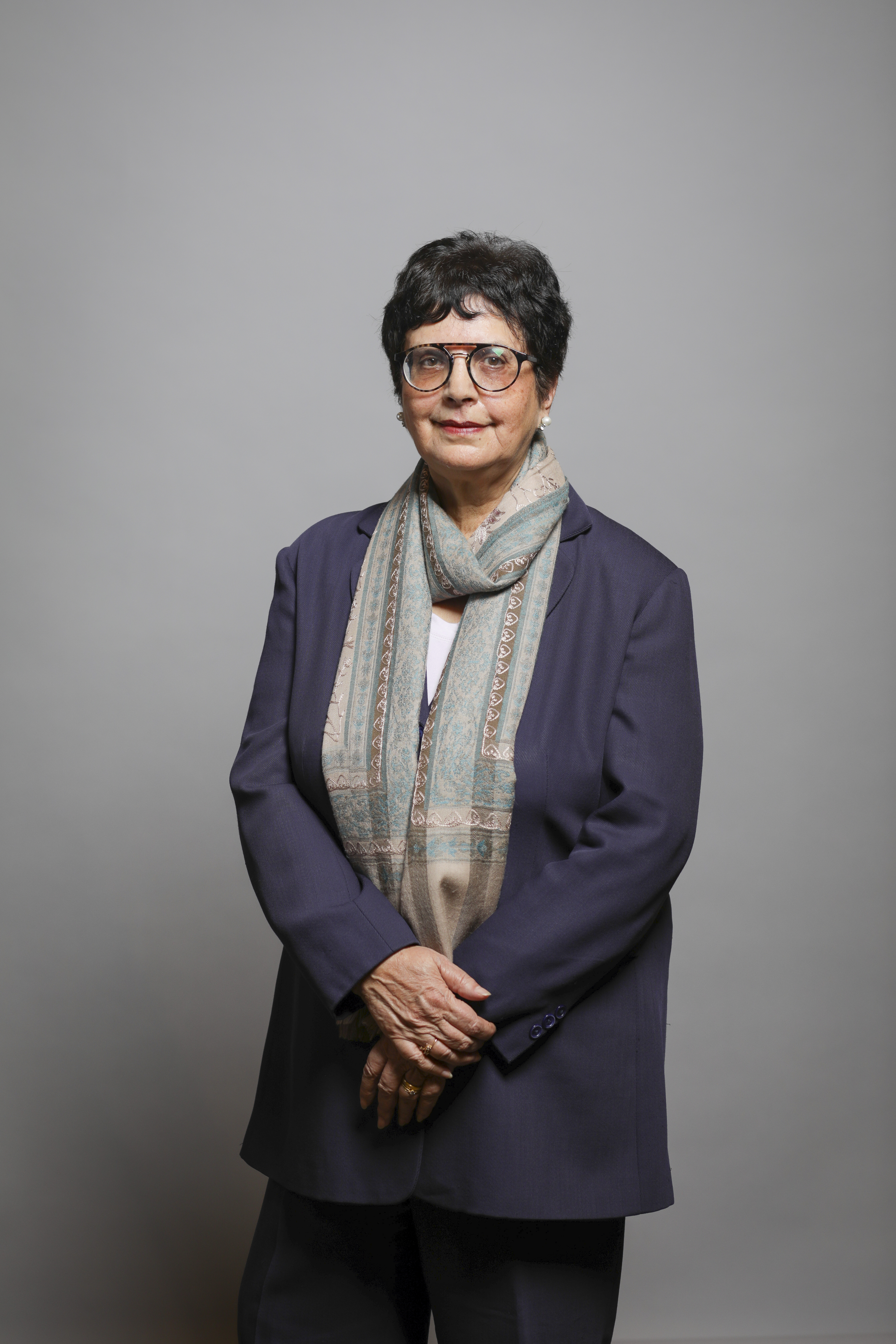 Official portrait of Baroness Prashar Full sized portrait of Baroness Prashar